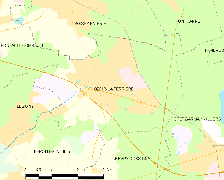 Map of French municipality Ozoir-la-Ferrière